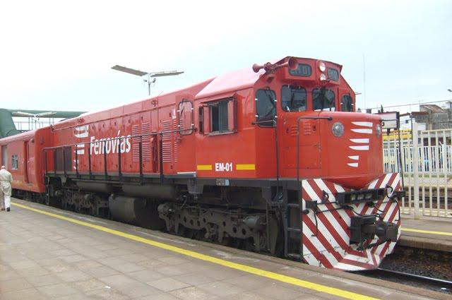 A train painted in concessionaire Ferrovías corporate colors, stopped at Grand Bourg station, Greater Buenos Aires.